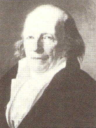 Johann Heinrich Wilmerding (1749-1828), Major of Braunschweig